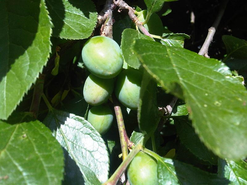 Plum (Prunus domestica) fruits in London, England.